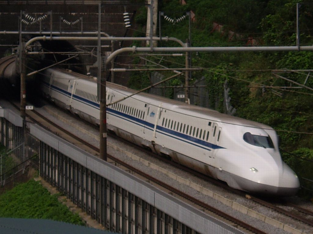 A Shinkansen N700 train, passing the curve of 2,500 meters in radius. Between Shin-Yokohama and Odawara Stations.